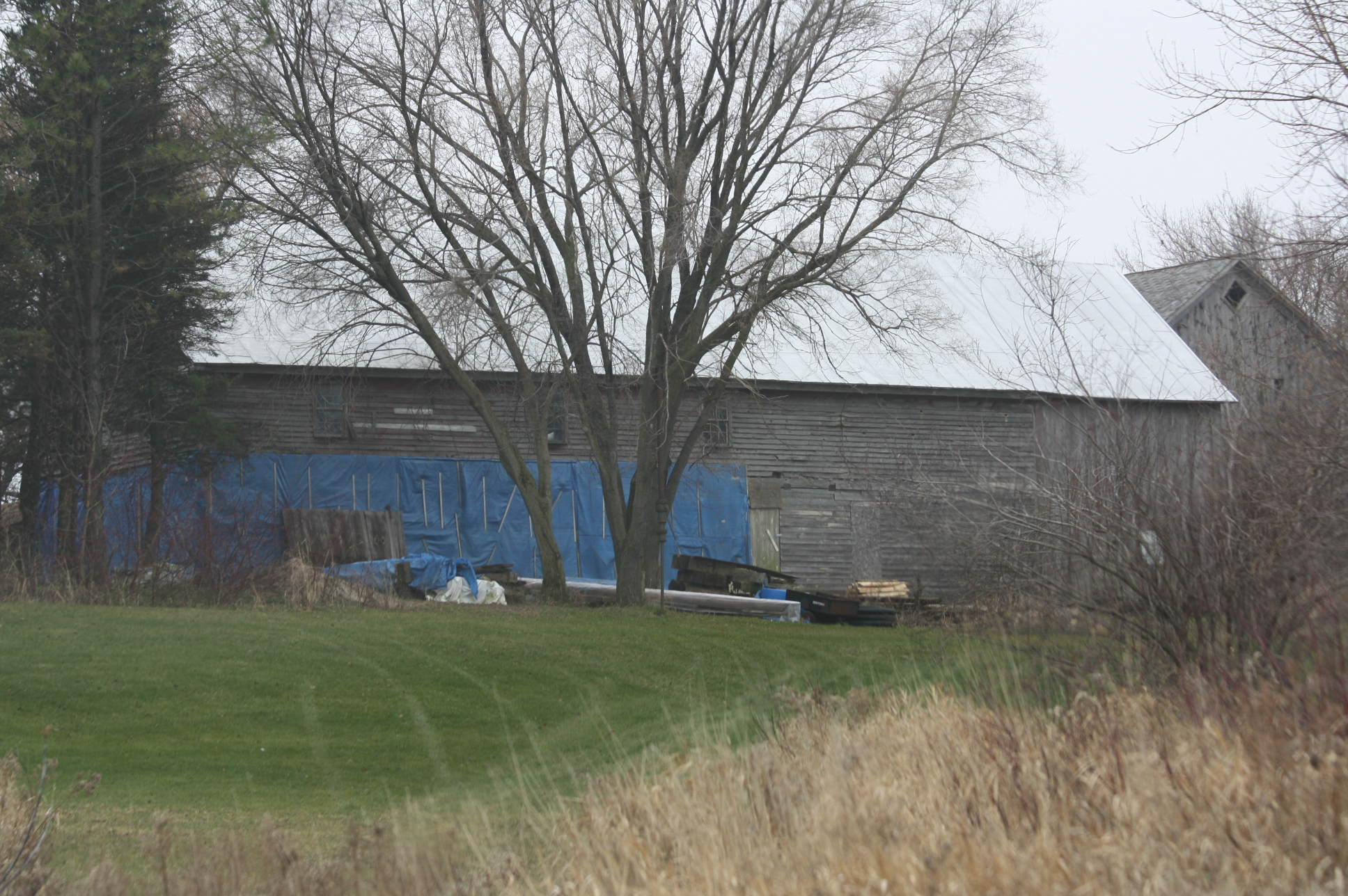 The Lutze Housebarn in rural Manitowoc County, Wisconsin. There a very few housebarns in the United States.